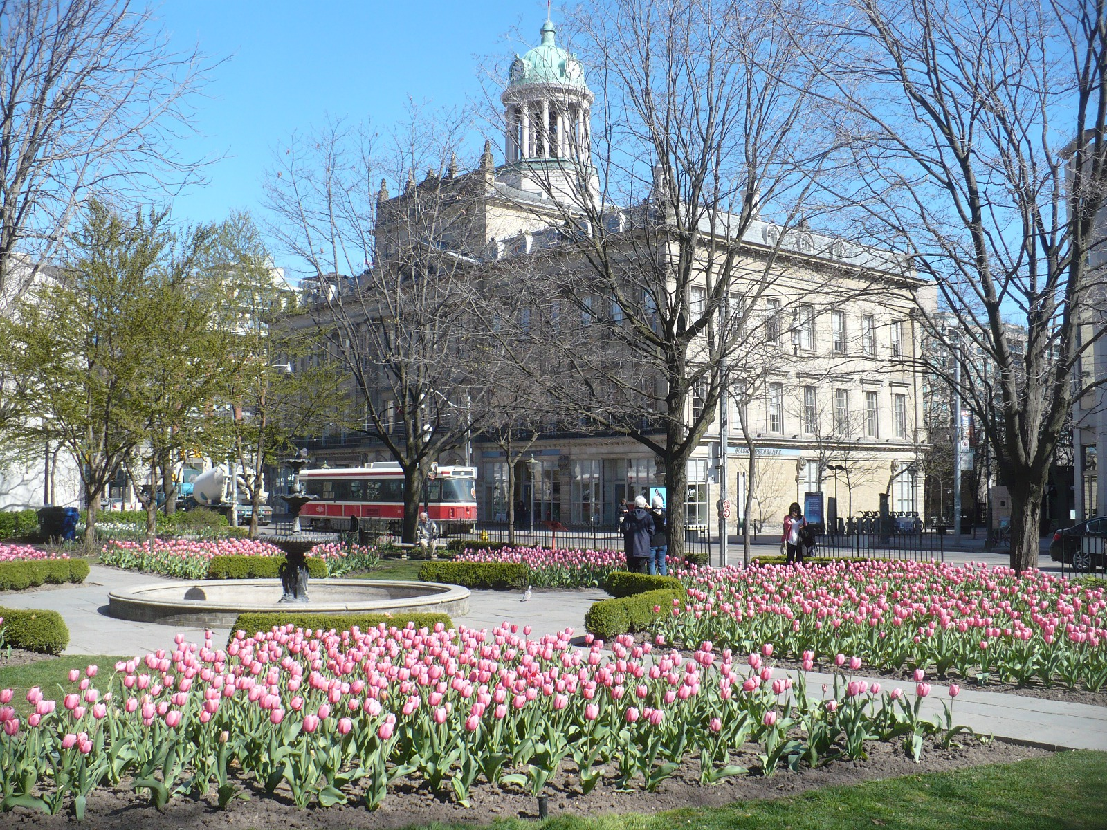 St Lawrence Hall across the tulips in St. James Park, Toronto